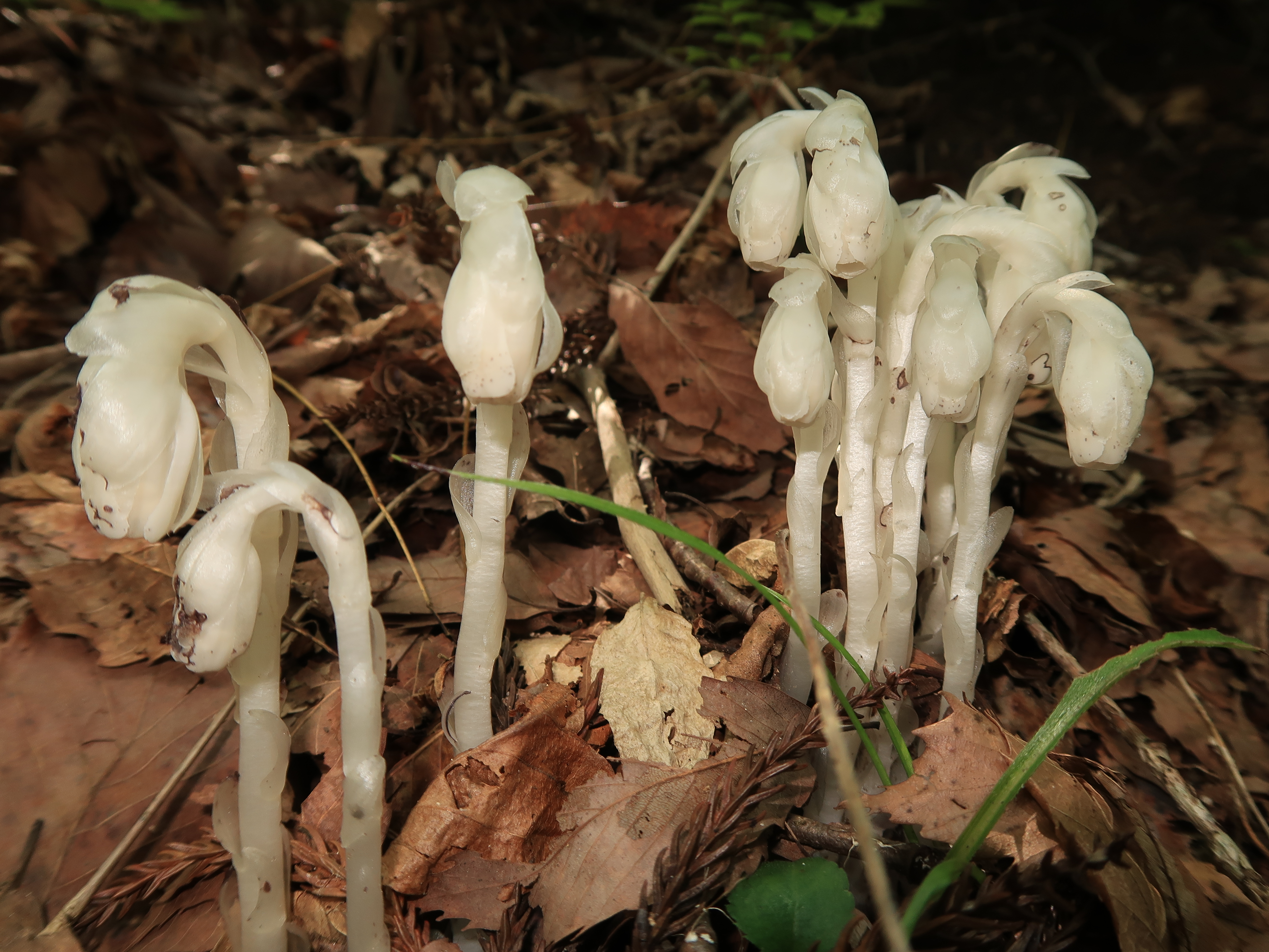 Monotropa uniflora, Hama-dori area, Fukushima pref., Japan